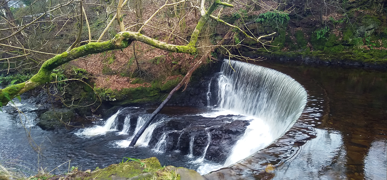 River Calder upstream Lochwinnoch (Renfrewshire, Scotland, UK)